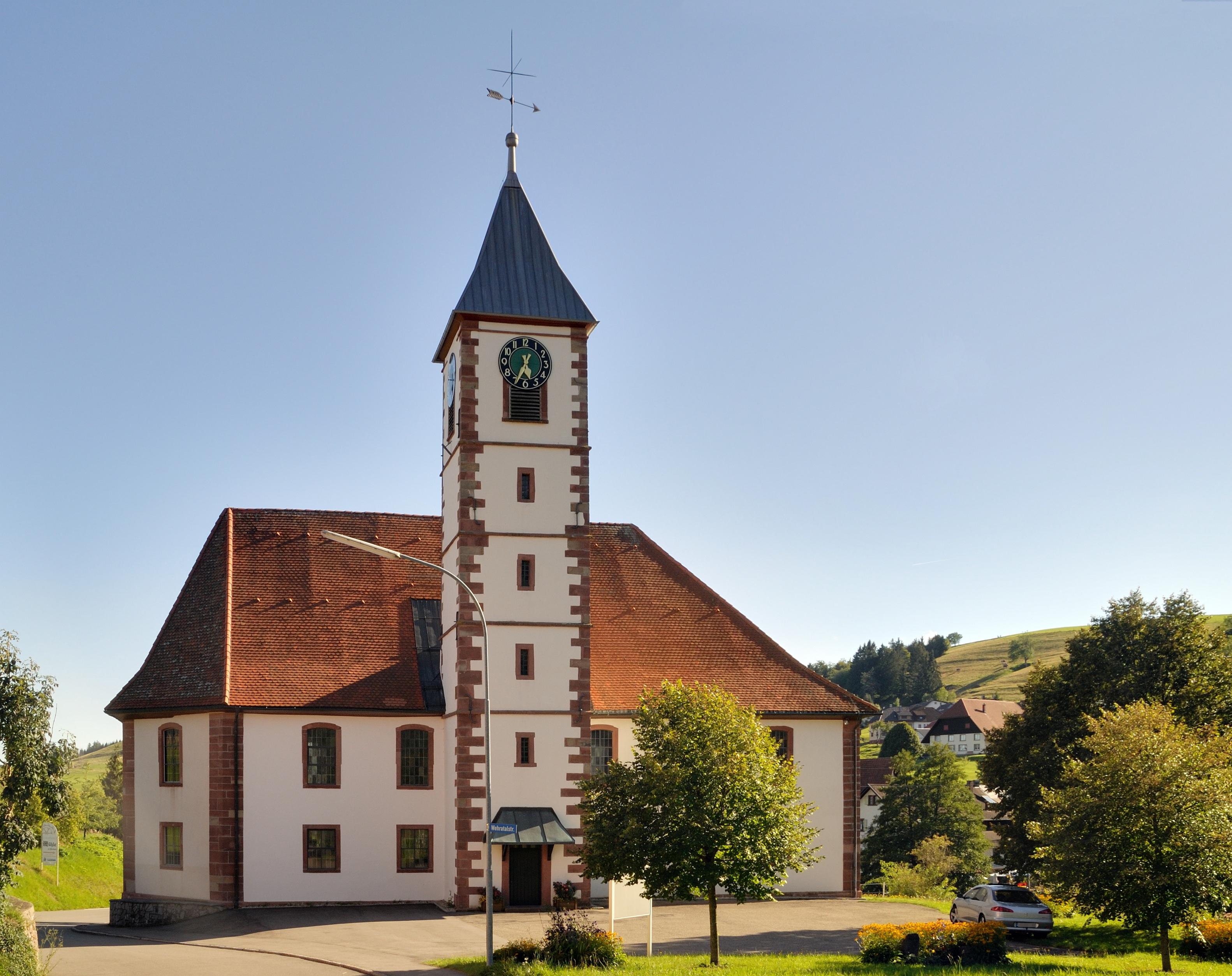 Schopfheim-Gersbach: Protestant Church